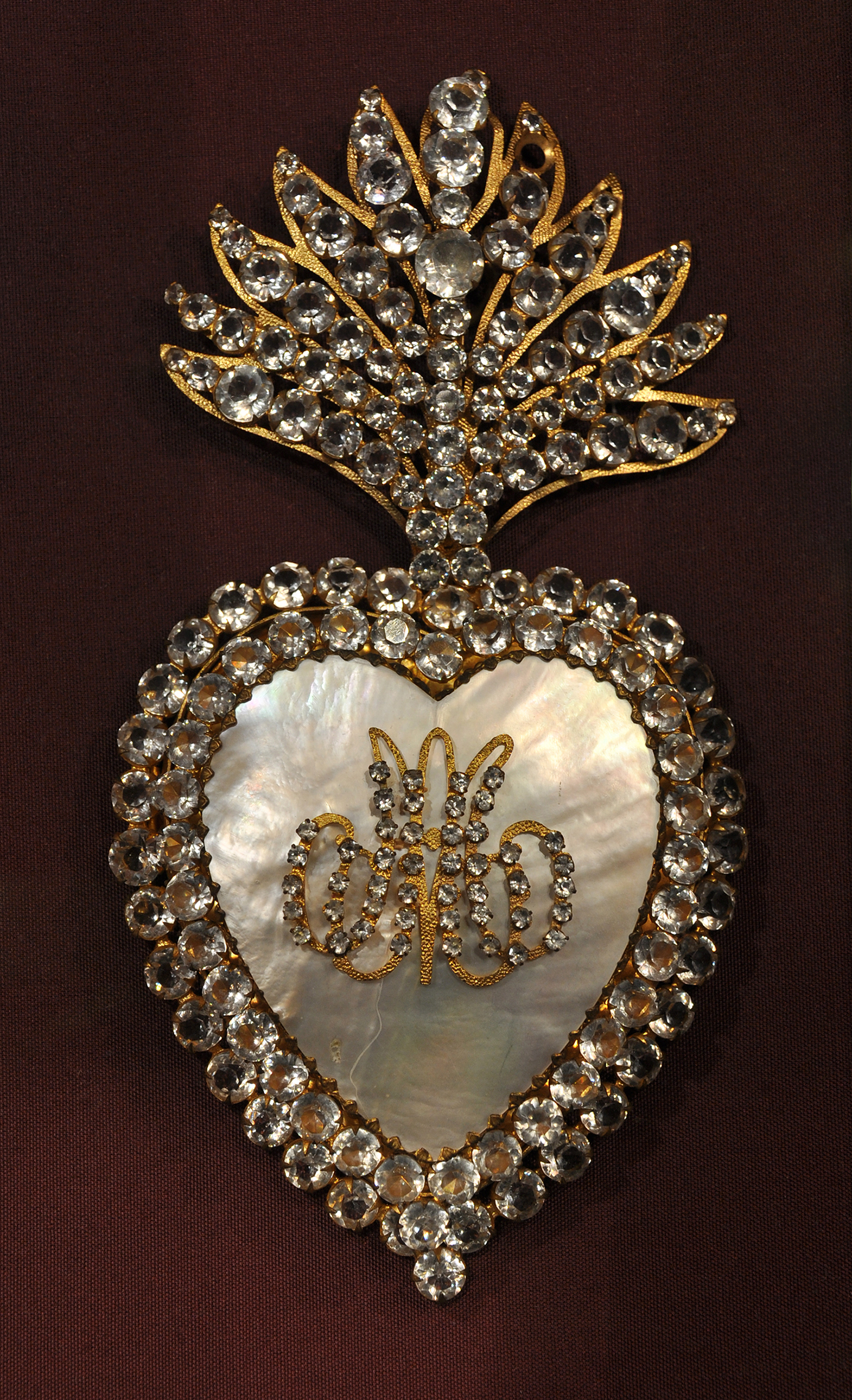 Ex voto, XIXth or XXth century, mother of pearl and rhinestone. Musée du Coeur ( collection of Mr and Mrs Boyadjian ), MRAH, Jubilee Park, Brussels.